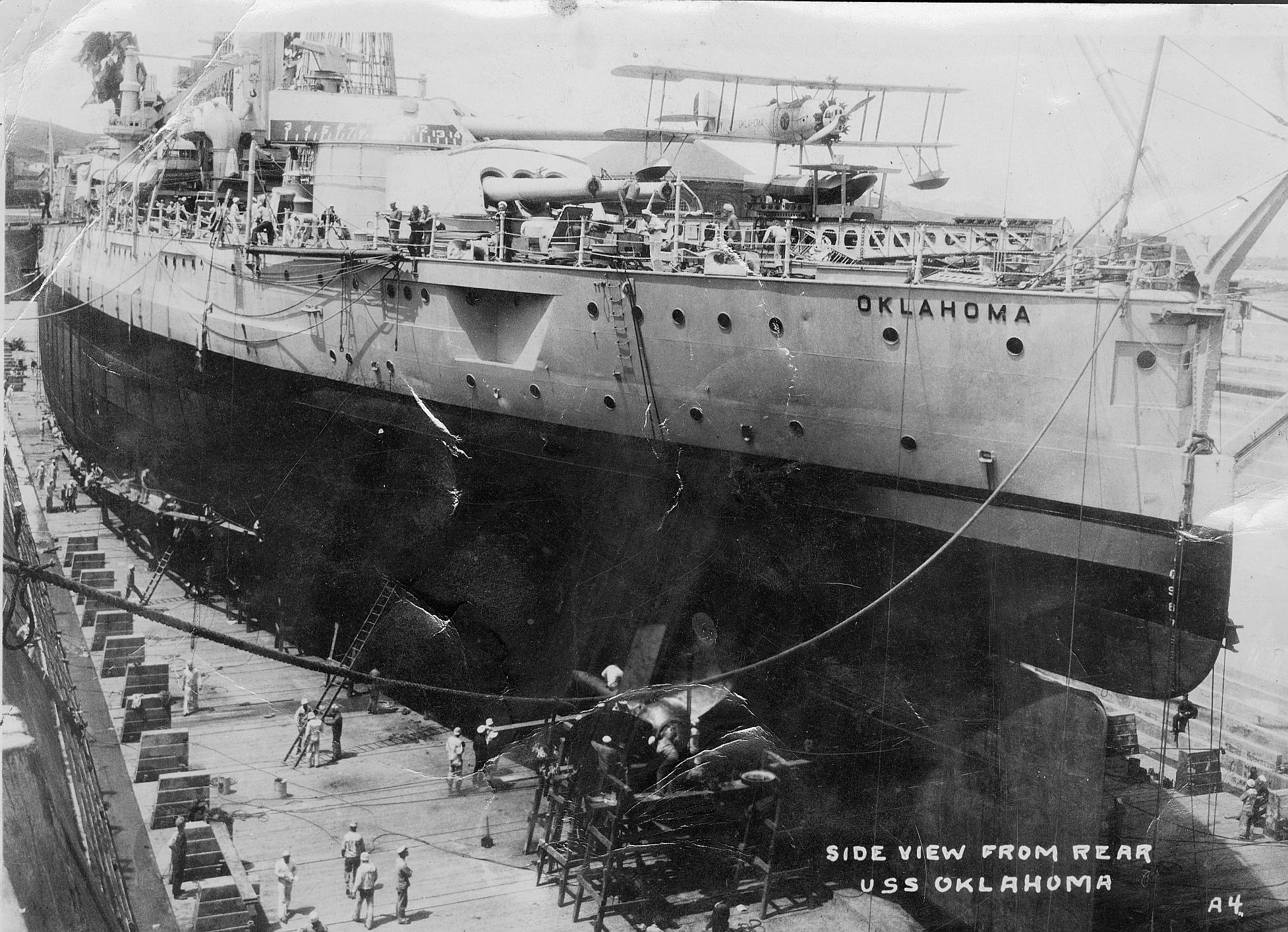 View of the stern of the U.S. Navy battleship USS Oklahoma (BB-37) in drydock, in the 1920s. Note the Vought UO-1 observation aircraft on the stern catapult.